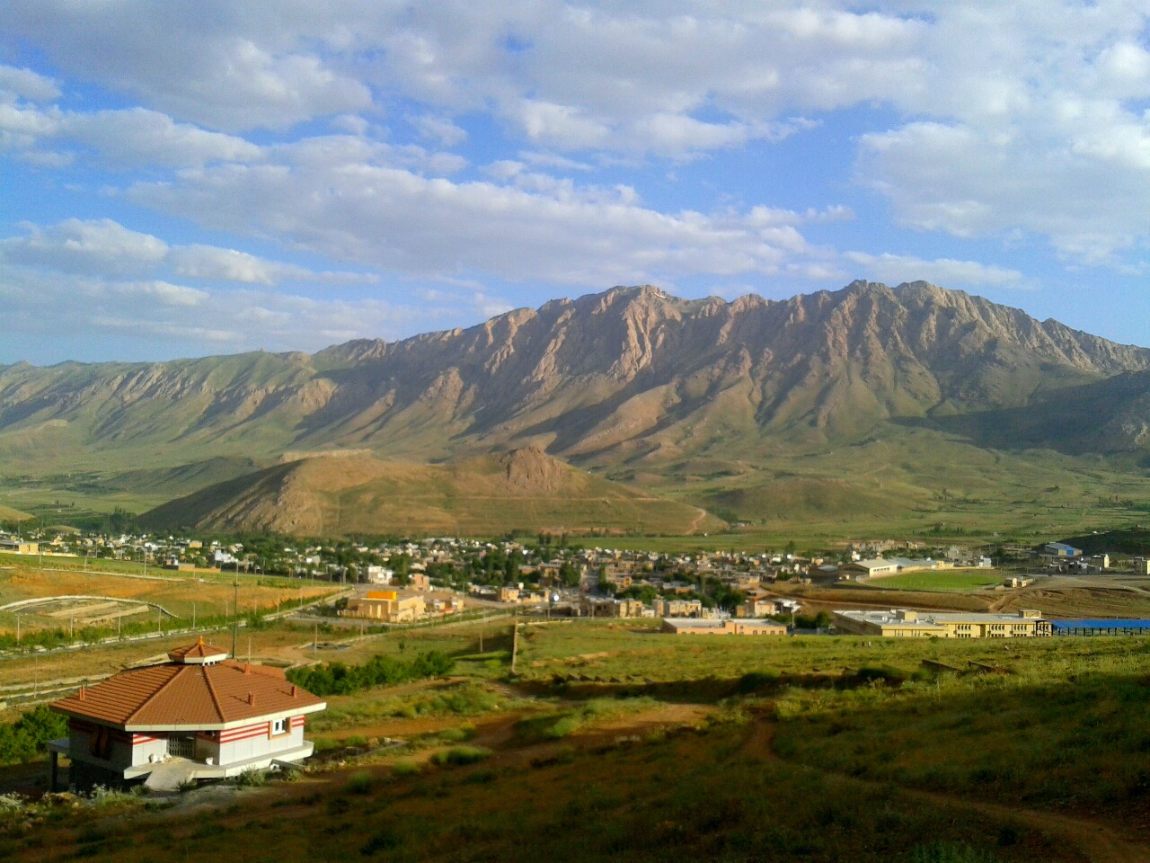 View of Fereidunshahr, Tatashvili (Mtamtashvili) hill and Tatarashvili mount from Moalem park